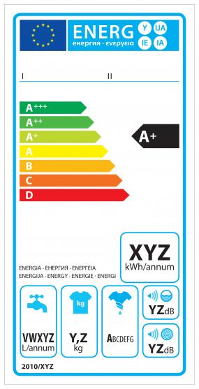 new energy label